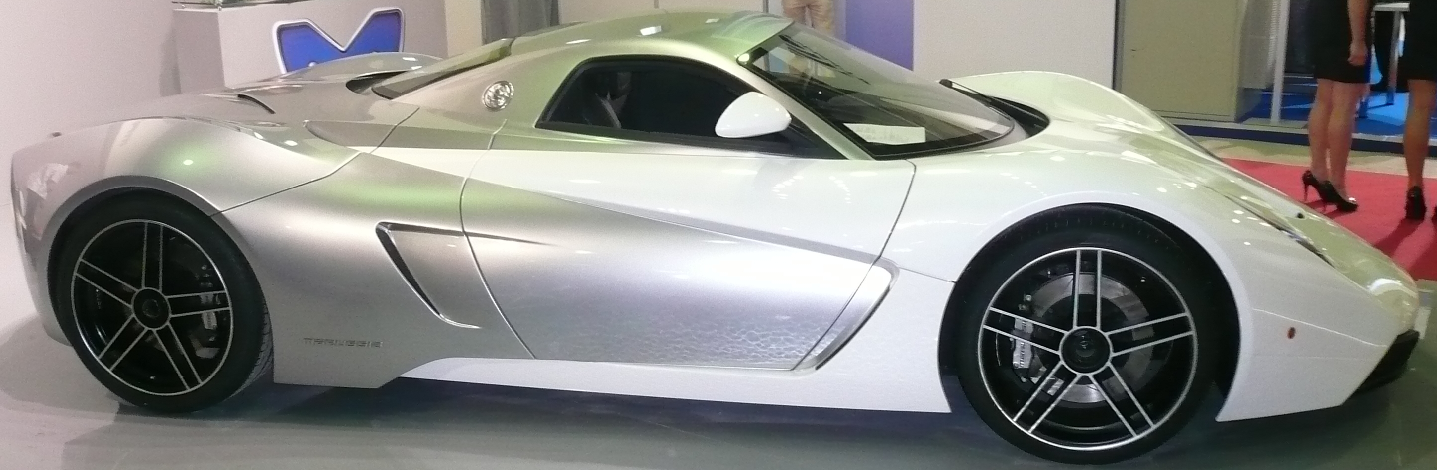 Marussia B1